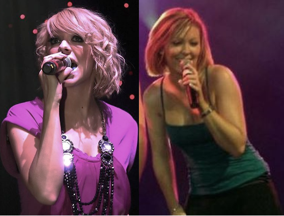 The members of the British girlgroup Atomic Kitten: Liz McClarnon and Natasha Hamilton.